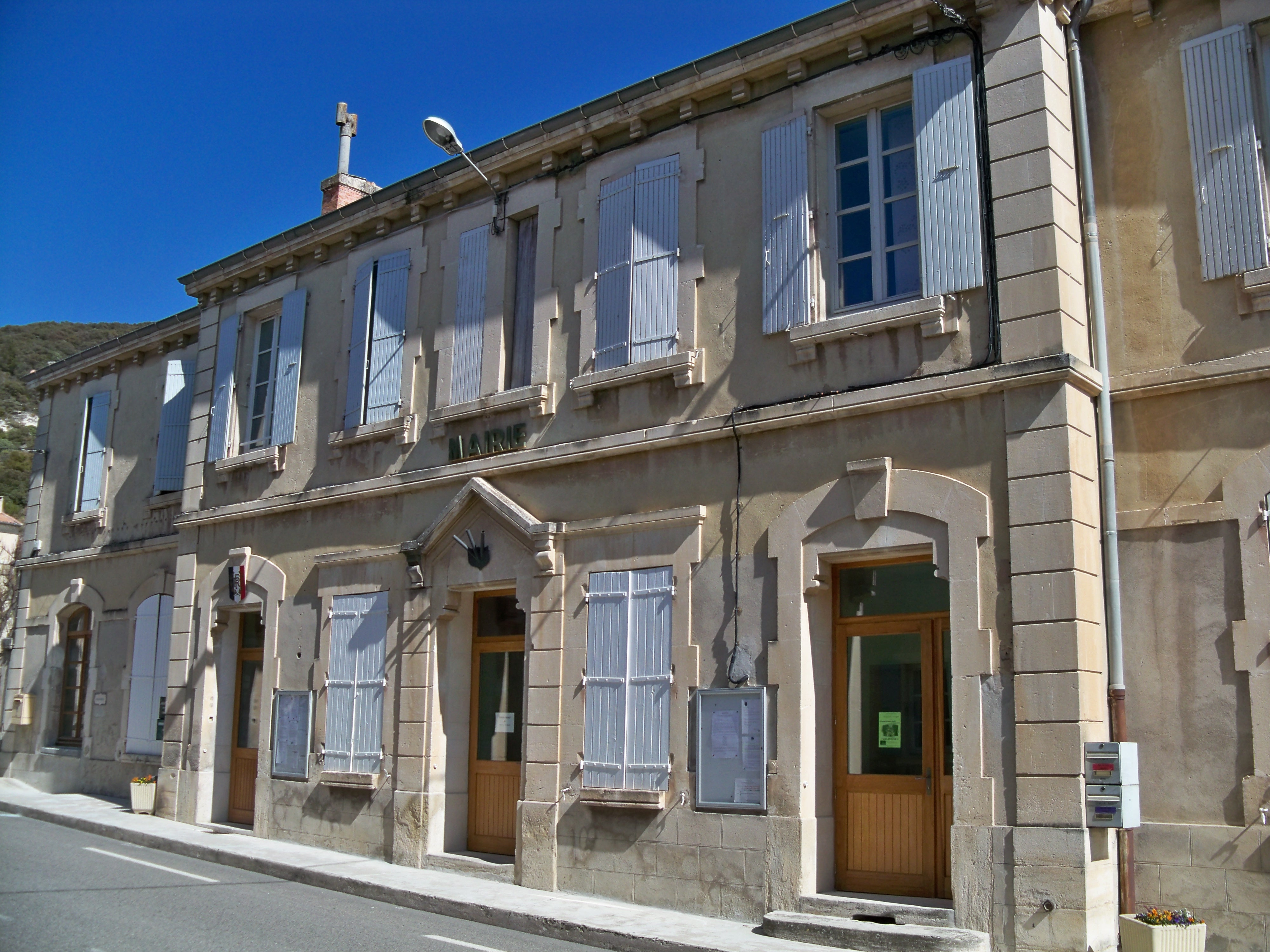 Town hall of Rousset les Vignes (Drome, France)